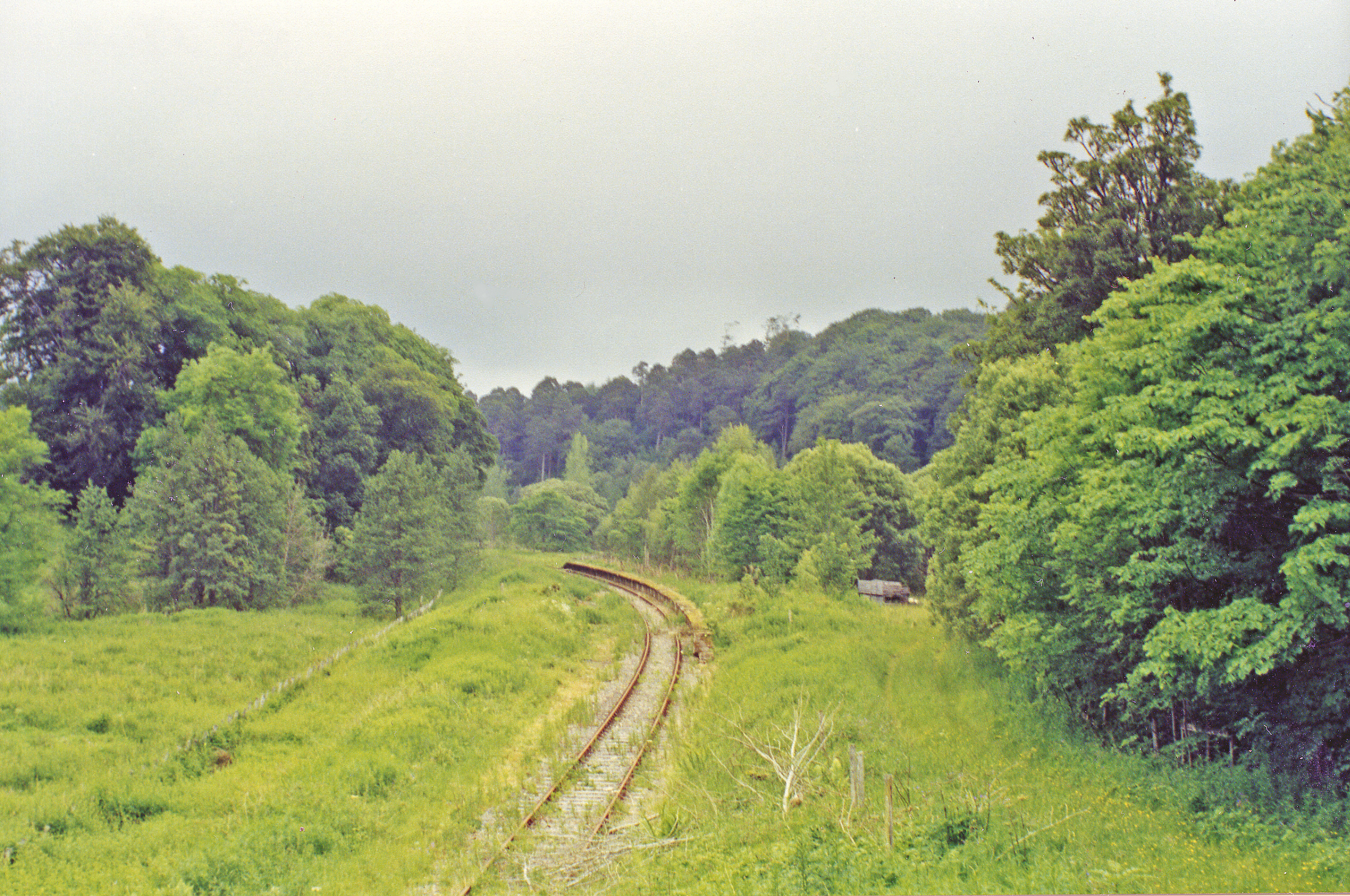 Drummuir station (remains), 1997. View NE, towards Craigellachie: ex-GNSR Keith - Dufftown - Craigellachie line. The station closed when passenger services ceased 6/5/68; goods (Dufftown - Craigellachie only) 15/11/71. By 1997 the Keith - Dufftown section was 'mothballed' in the expectation of being restored by a Heritage Society and it was indeed soon acquired by the Keith & Dufftown Railway ('The Whisky Line').